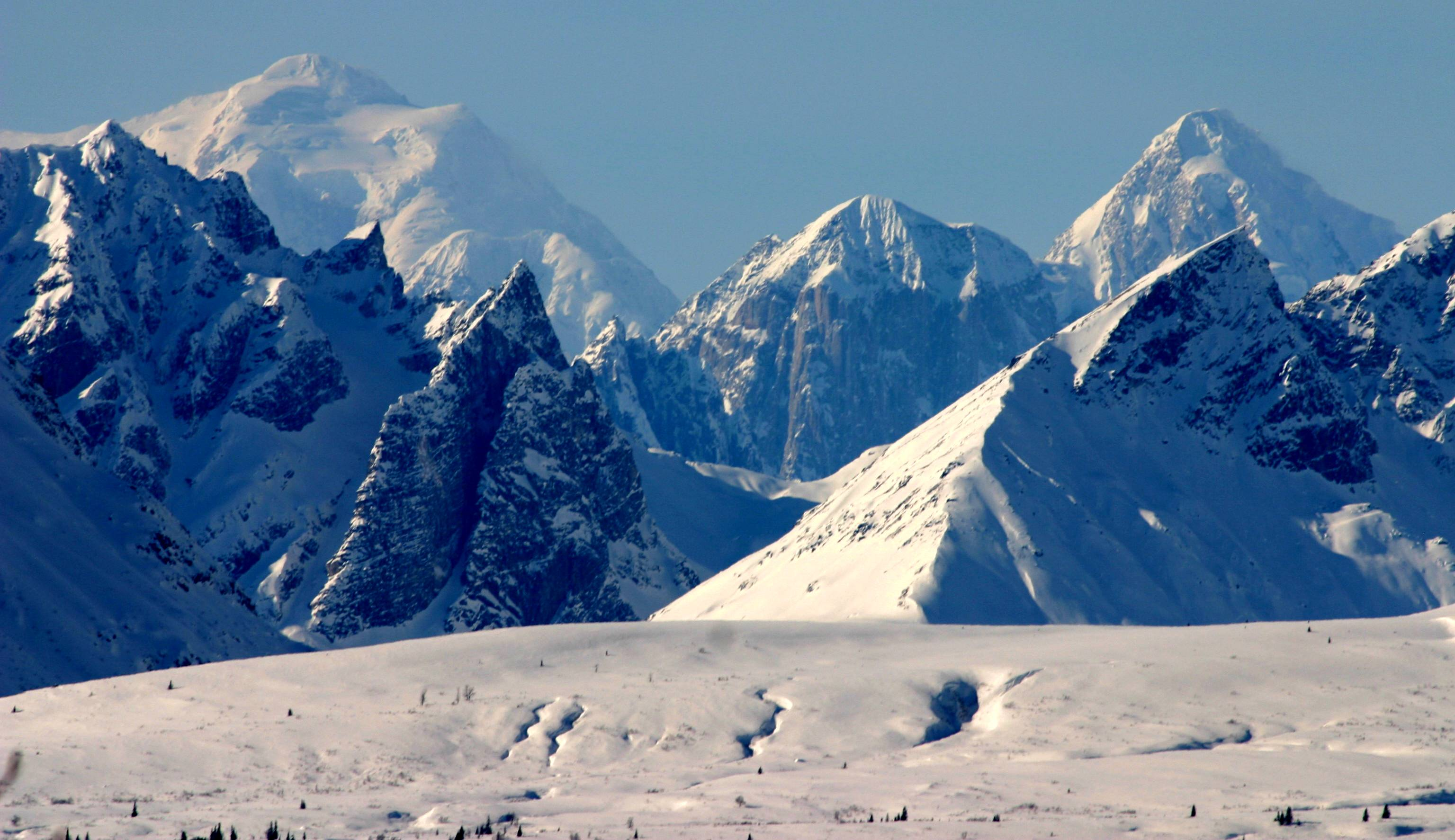 Taken on a long weekend road trip from Anchorage to Fairbanks in March 2008. I took these shots while traveling on the Parks highway.